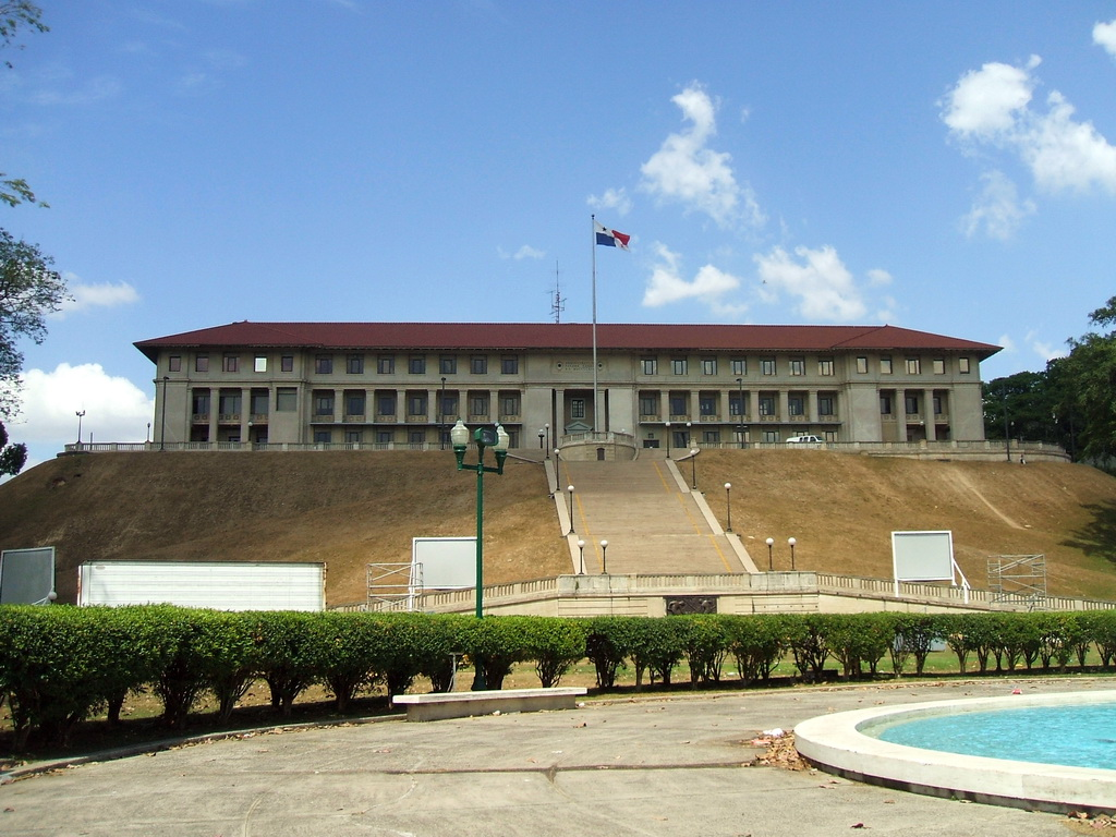 View of the Panama Canal Administration Building.